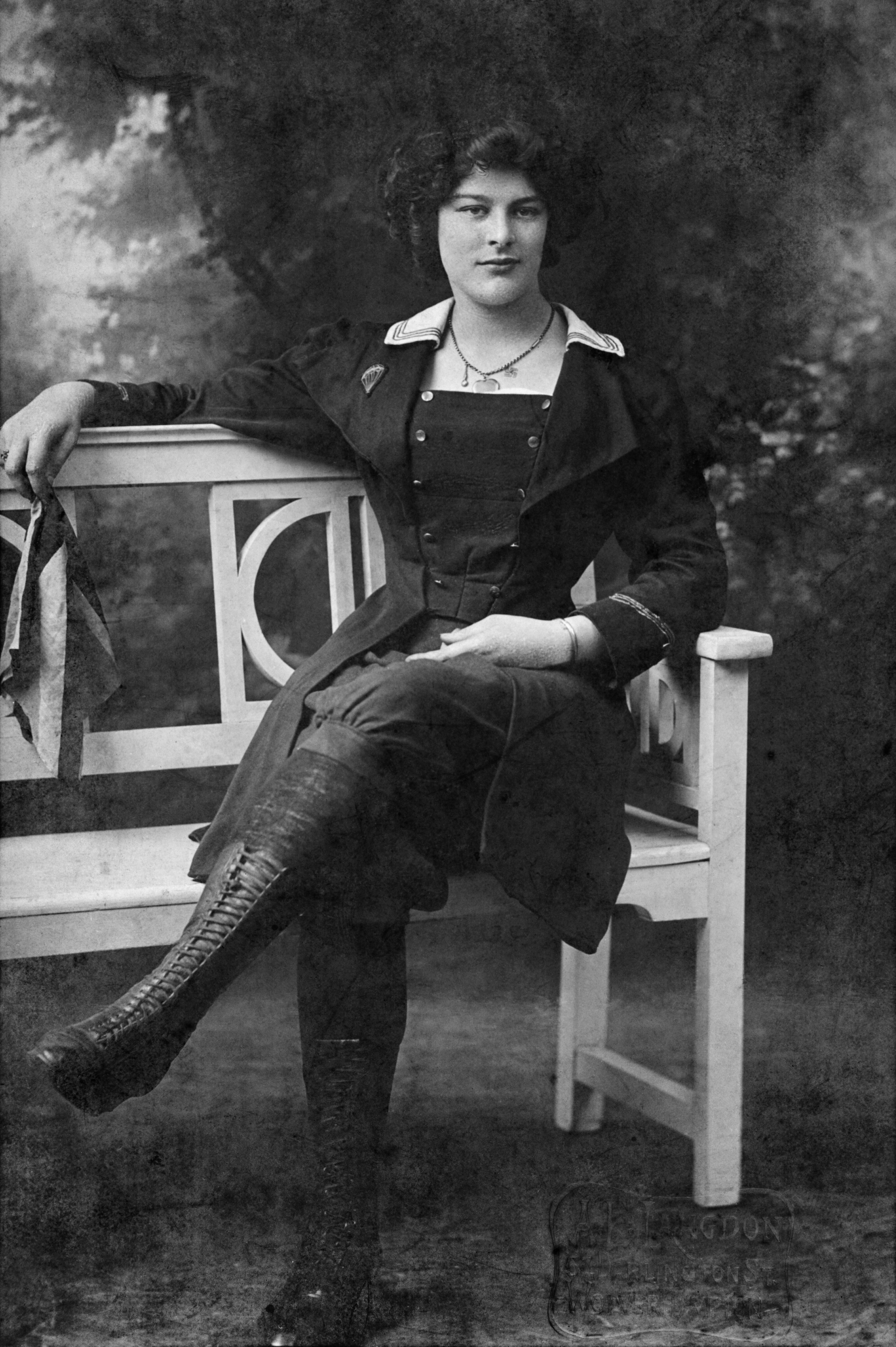 Britain Before the First World War Portrait of Dolly Shepherd, the fairground entertainer, balloonist and parachutist. During her act, she ascended on a trapeze slung below a hot-air balloon to a height of 2000 - 4,000 feet before descending on a parachute.